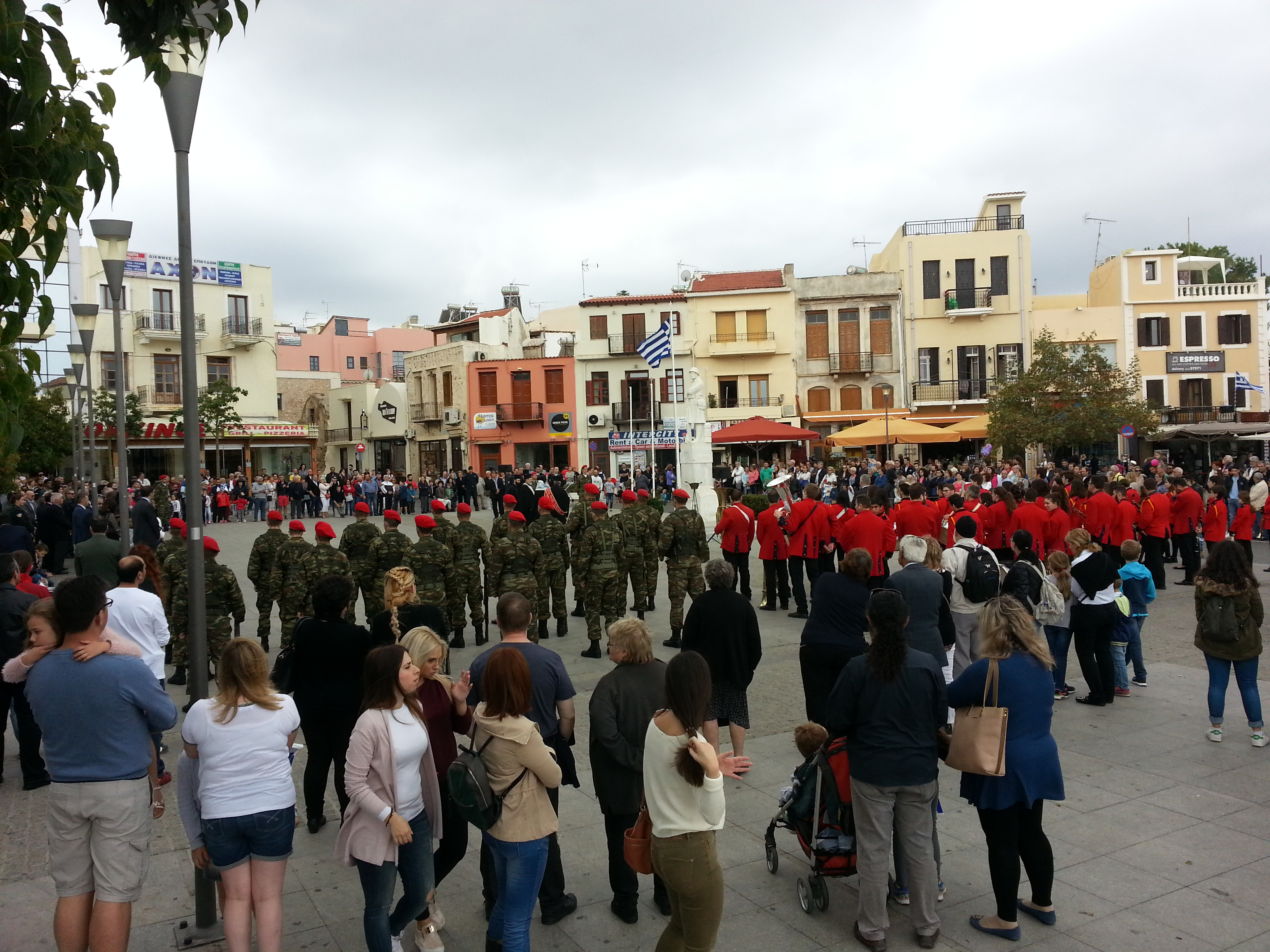 National Ochi Day ceremony in Rethymno, Crete